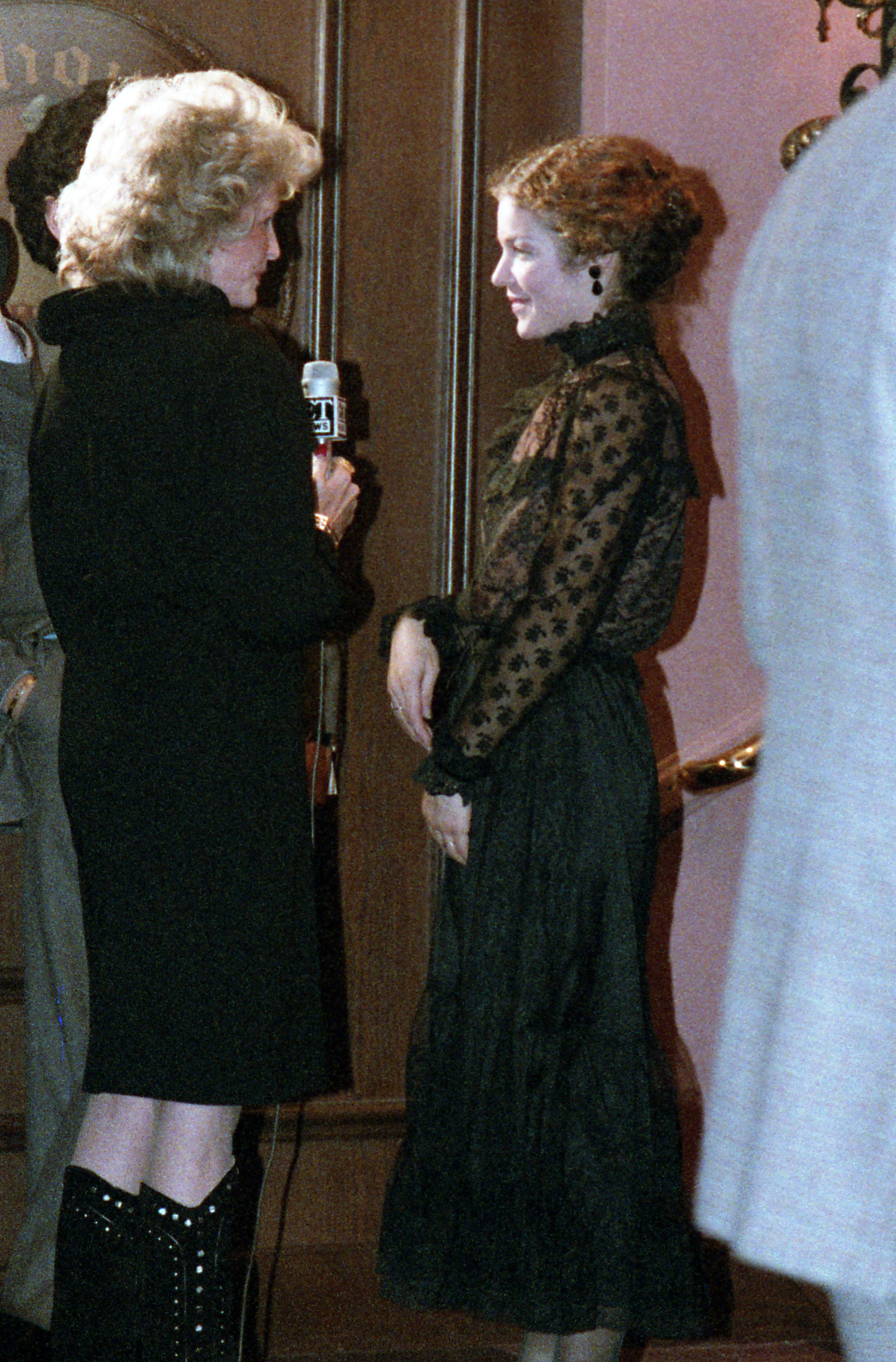 Amy Irving opening night at Heartbreak House - Circle in the Square